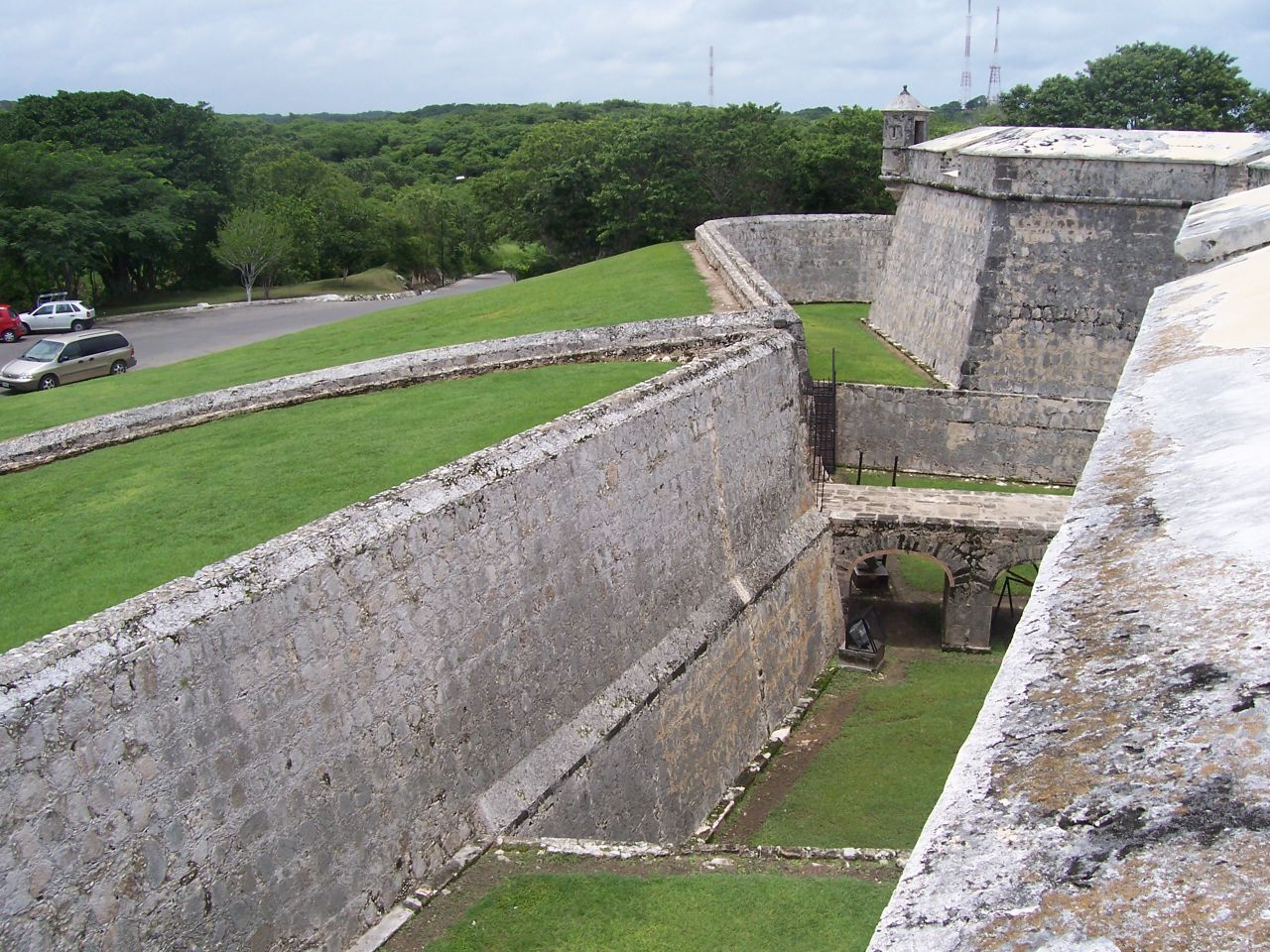 Curtain wall in Campeche, Mexico